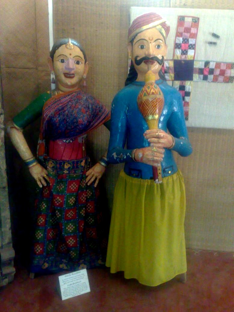 A photo of Gaarudi Gombe dolls used in a traditional folk dance in the state of Karnataka, India